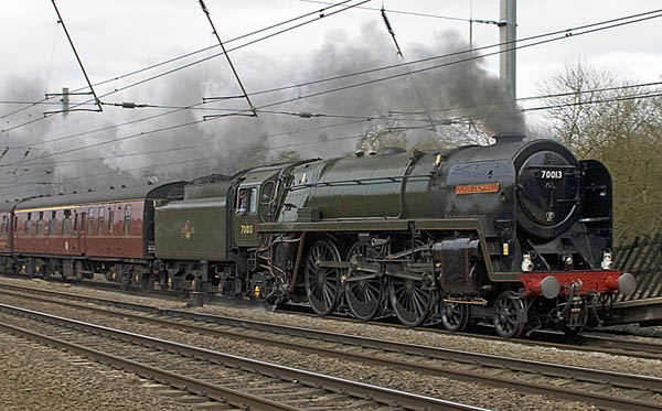 BR standard class 7 70013 Oliver Cromwell passing through Welham Green pulling the Great Northern from Cleethorpes to Kings Cross on Feb 28th, 2009.